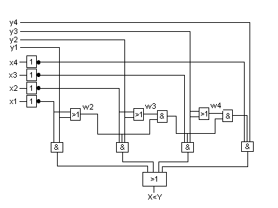 Digital Comparator